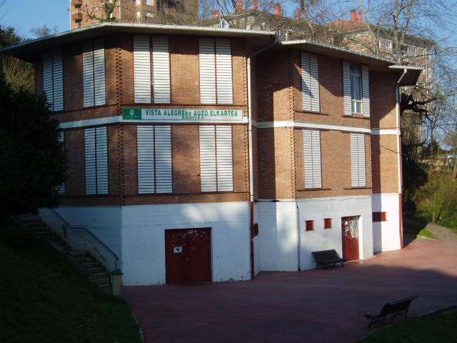 Former nursery, community center today, of Vista Alegre district in Zarautz (Gipuzkoa).